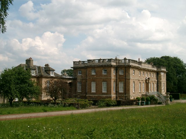 Bramham Park, near Wetherby, West Yorkshire, England